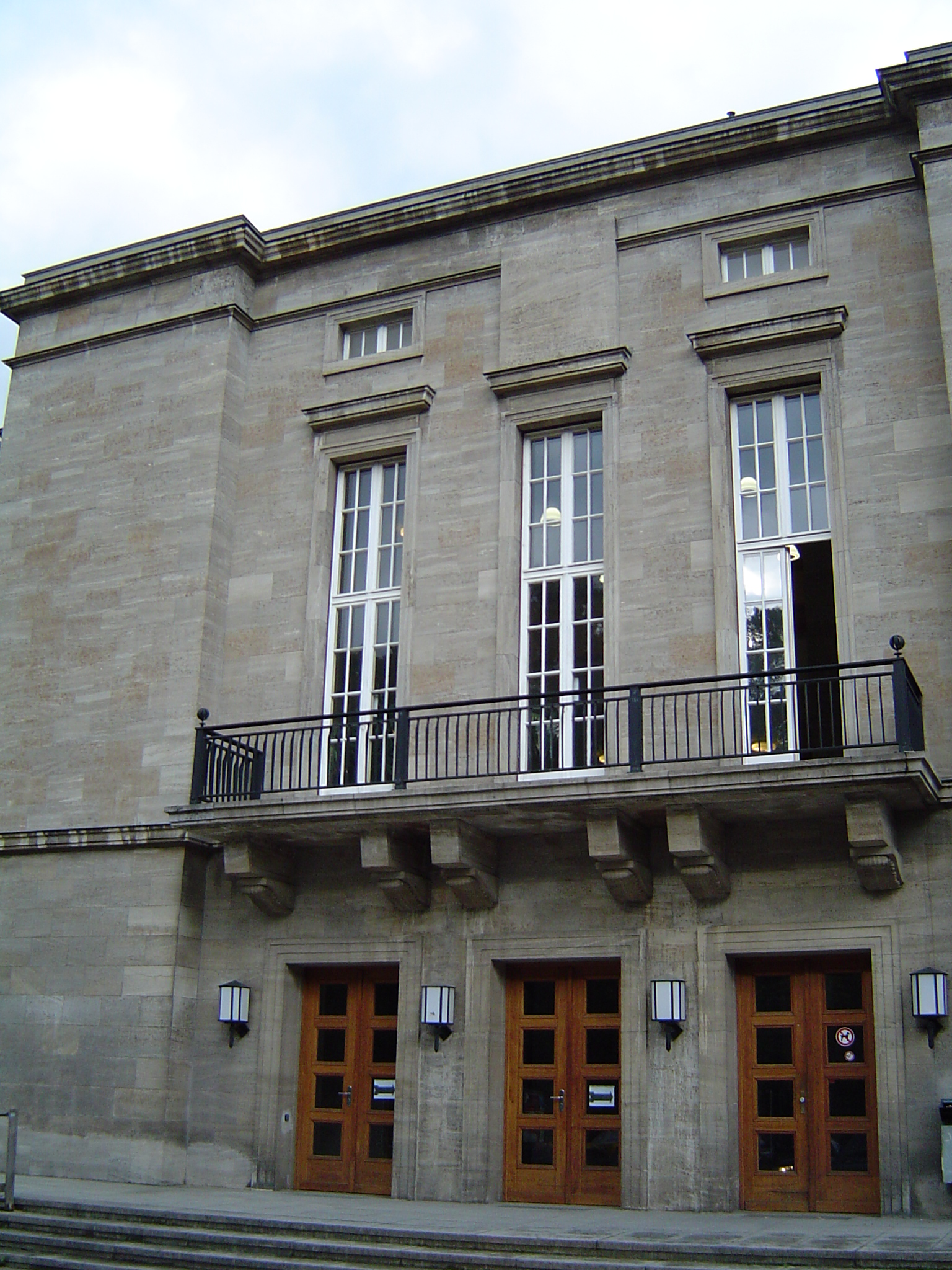 Front entrance oft the Griebnitzsee Campus, University of Potsdam